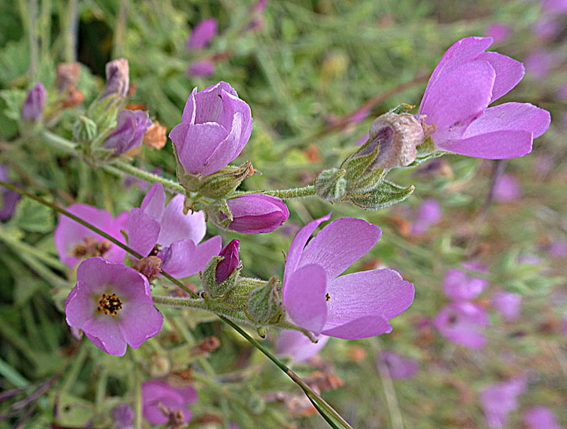 An alpine mallow found in the Cordillera of southern Chile. UC Berkeley Botanical Gardens.